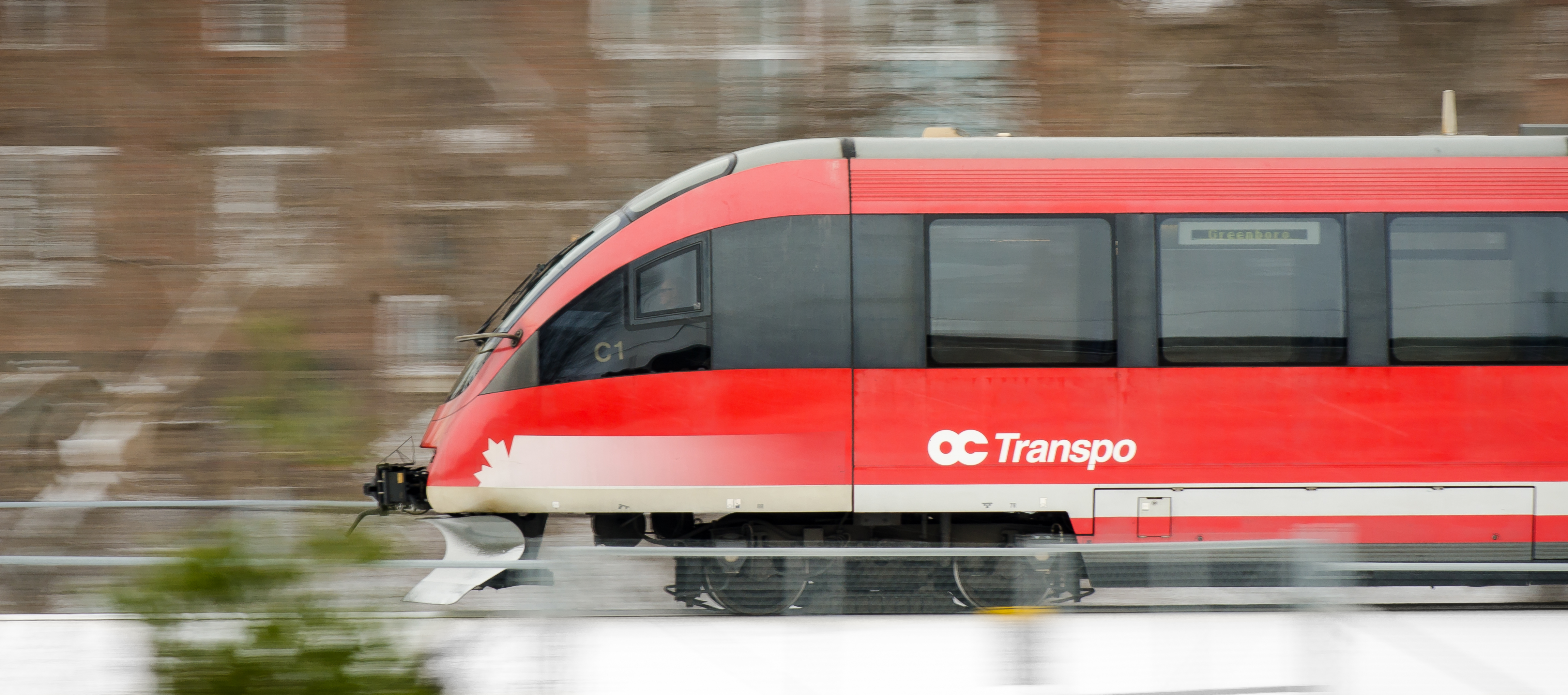 OC Transpo O-Train after departing Bayview Station in Ottawa.